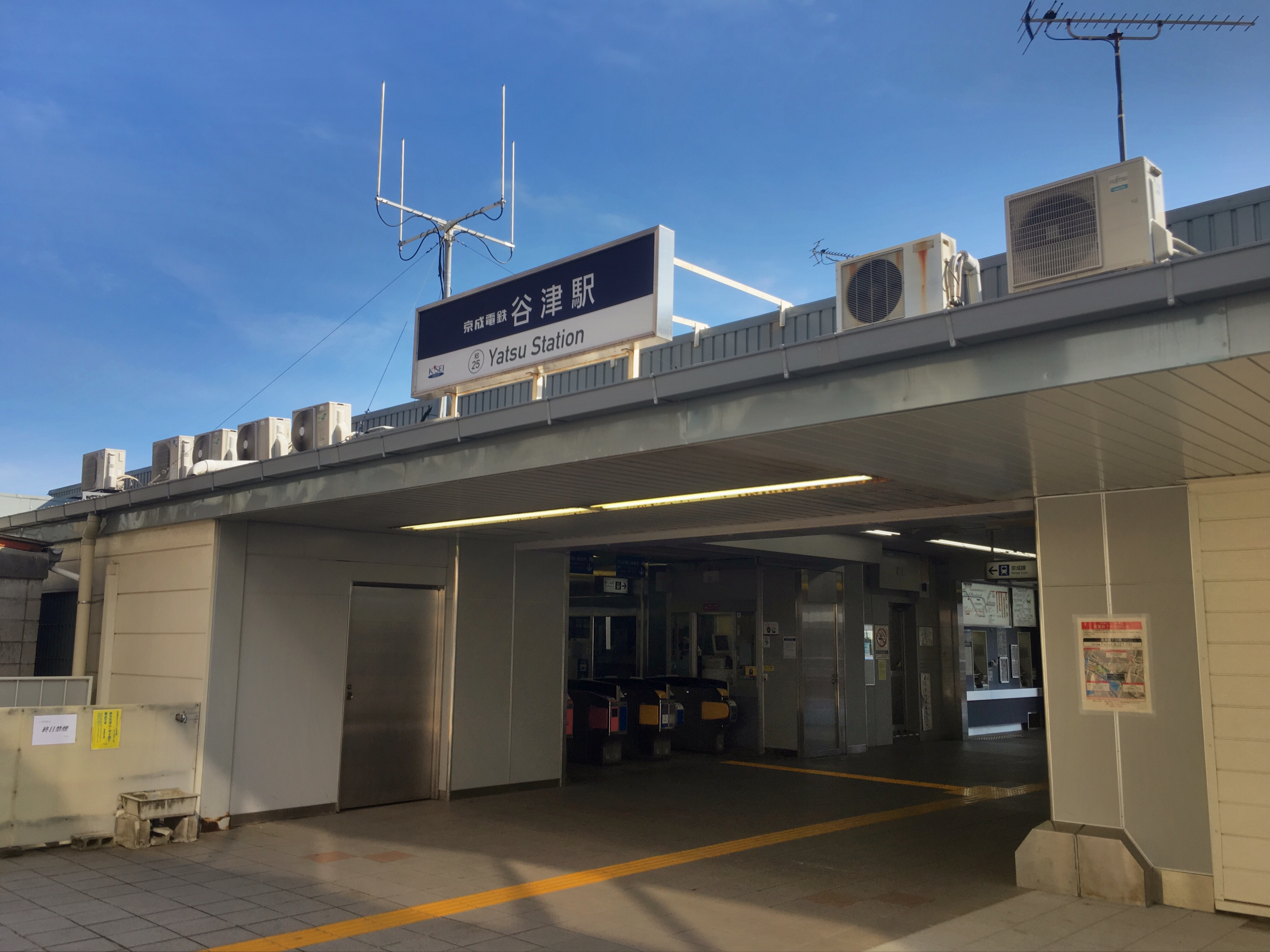 谷津駅 (Yatsu Station)